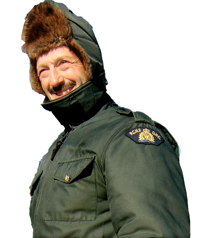 A sleigh driver of the Royal Canadian Mounted Police